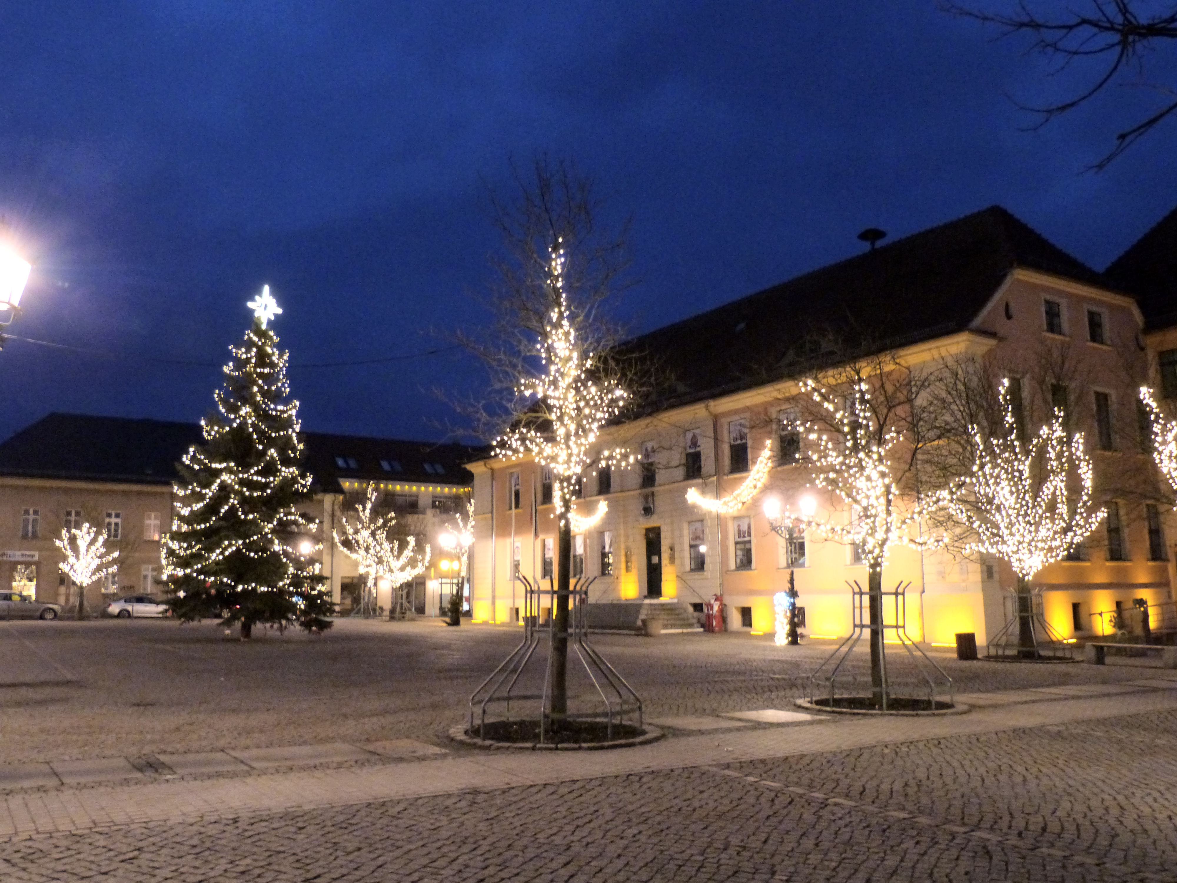 Market place in Bernau bei Berlin in the Christmas season